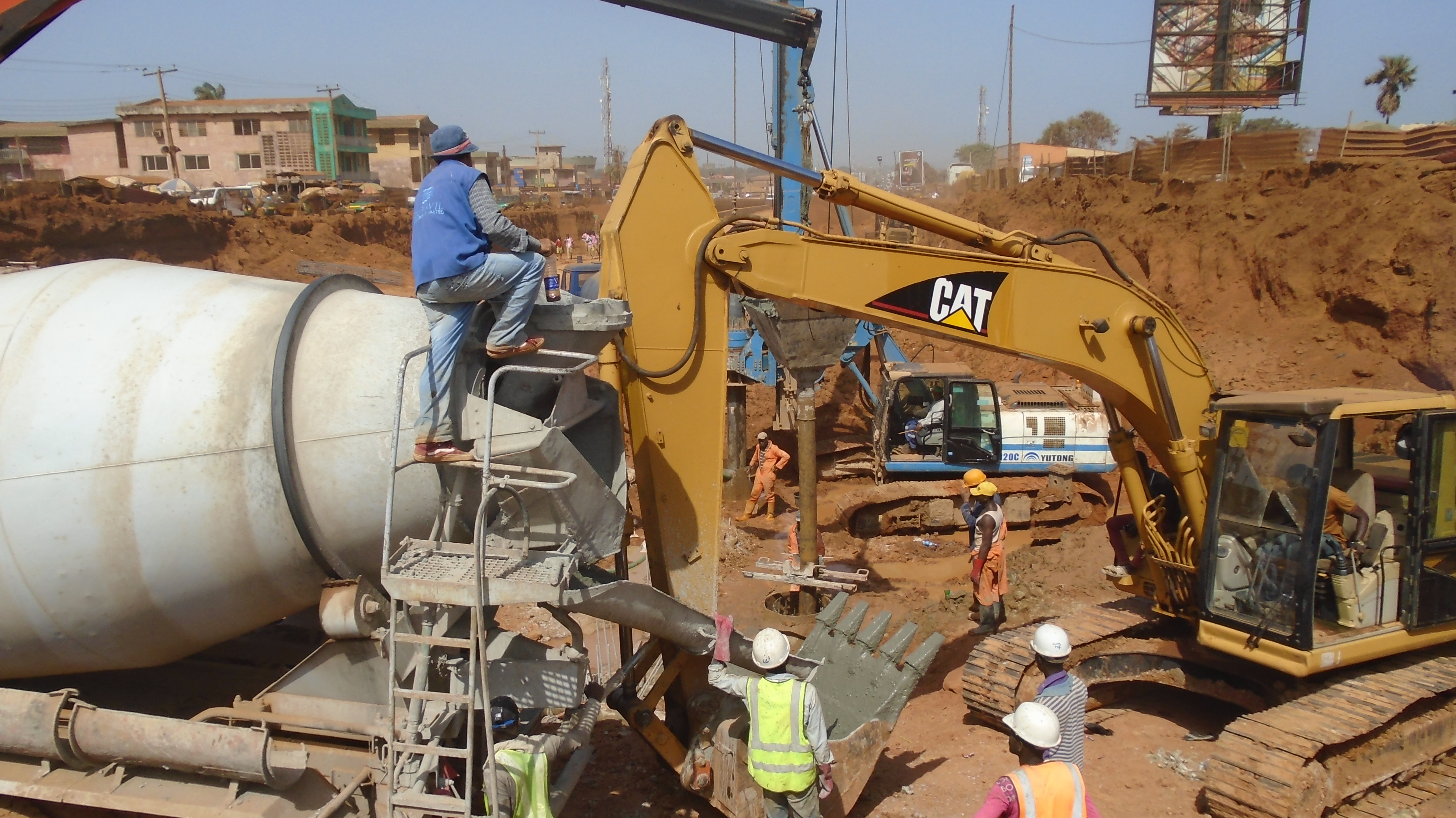 Duravil Engineering Limited @ work on the New Underpass Project In Kwara State Nigeria This is an image of "African people at work" from Nigeria